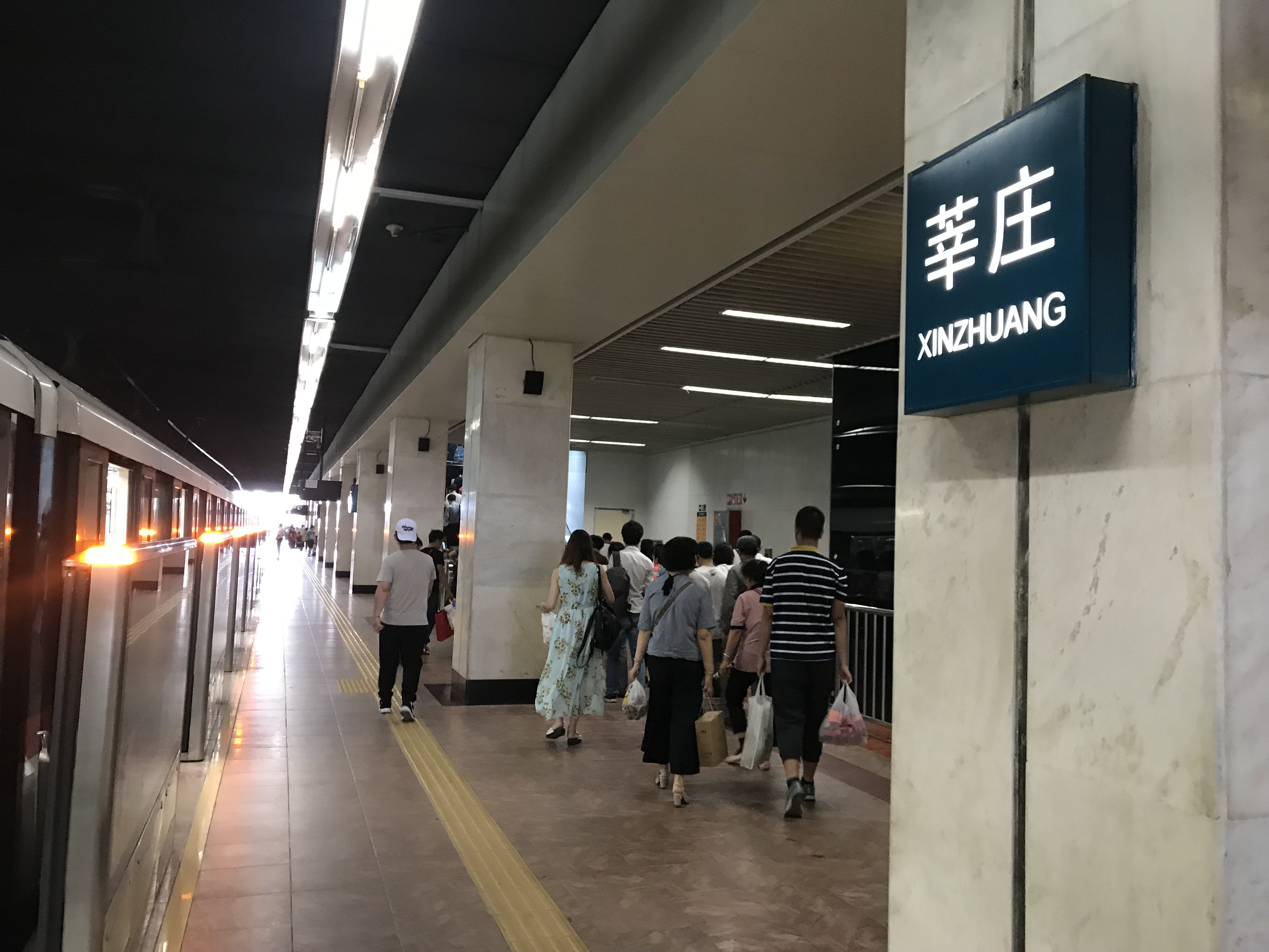 201806 Nameboard of SML1 Xinzhuang Station